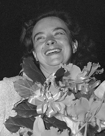 1964 Press Photo Mrs.Jerrie Mock first women to Solo flight around the world